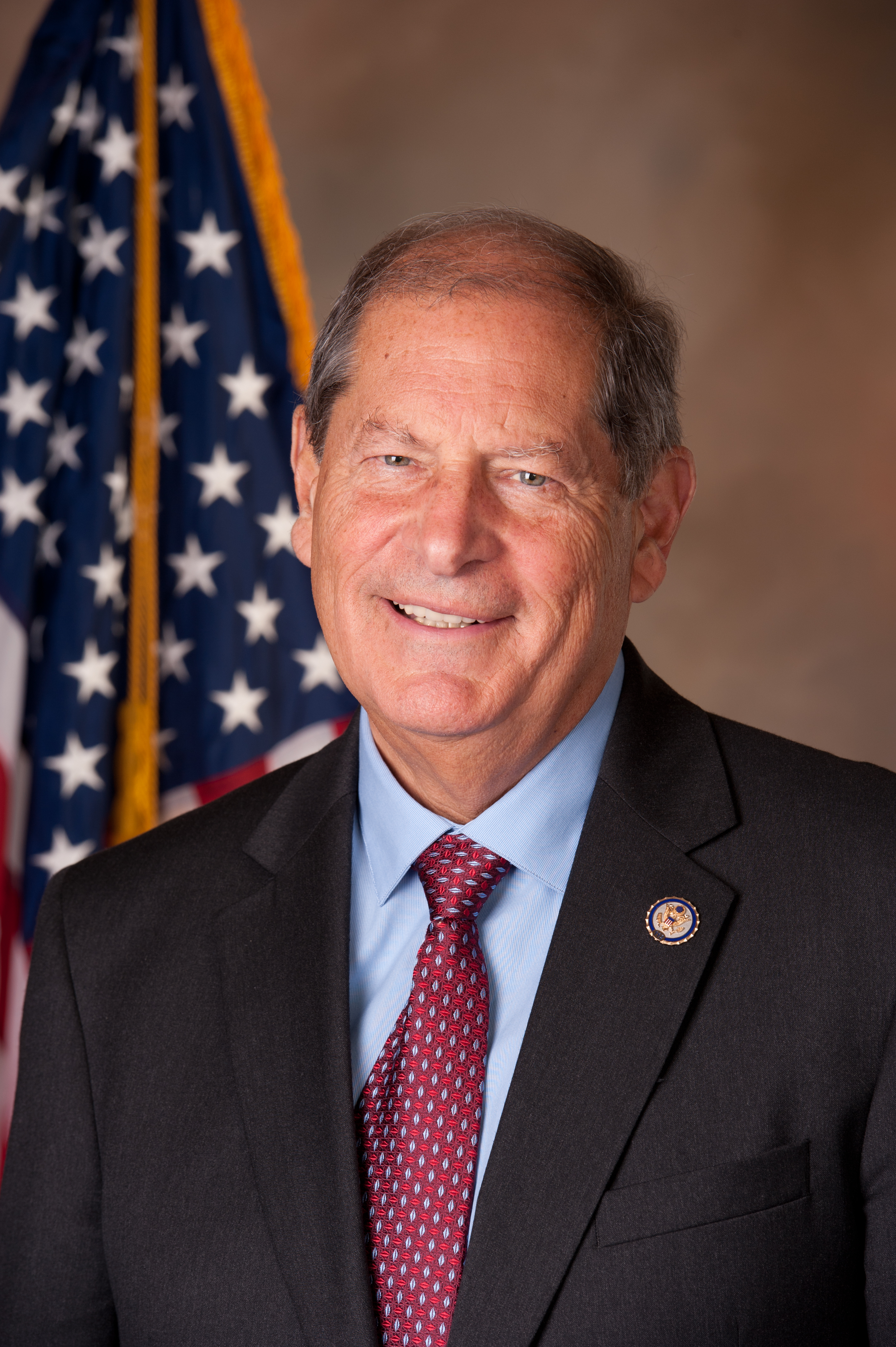 Official portrait of Congressman Bob Turner (R-NY).